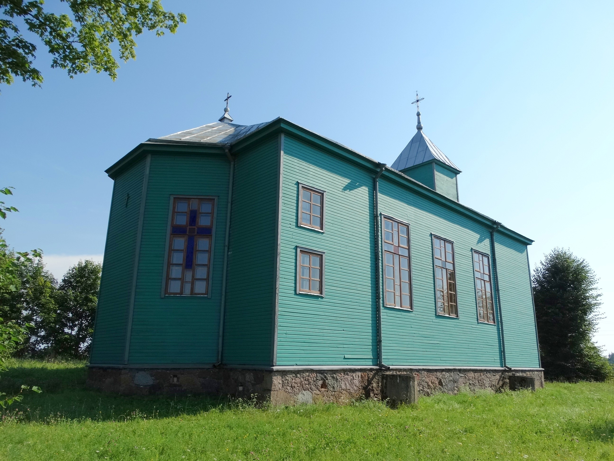 Roman Catholic Church,Daunoriai, Utena district, Lithuania